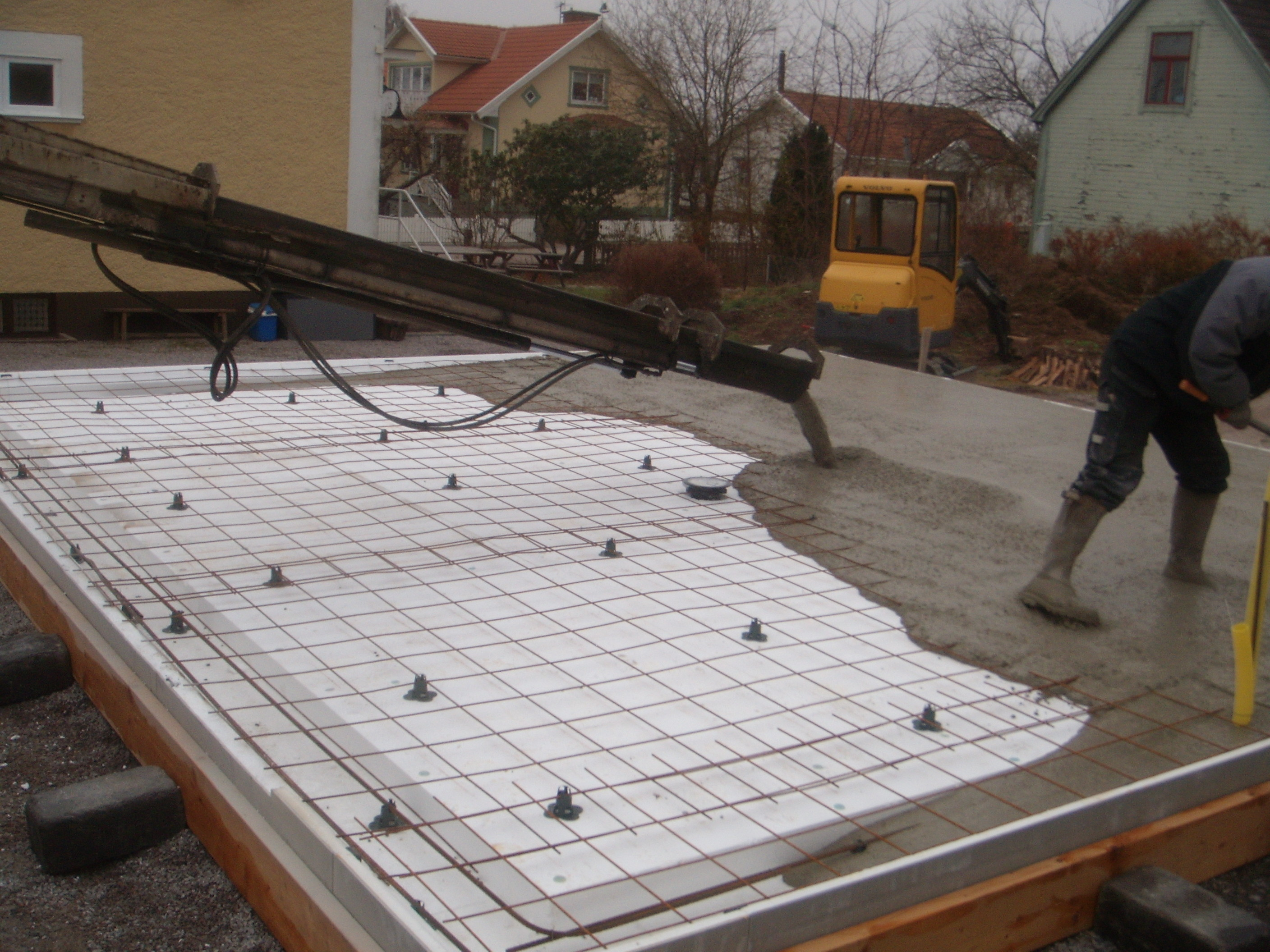 Concrete betong. Casting of a slab-on-grade foundation.